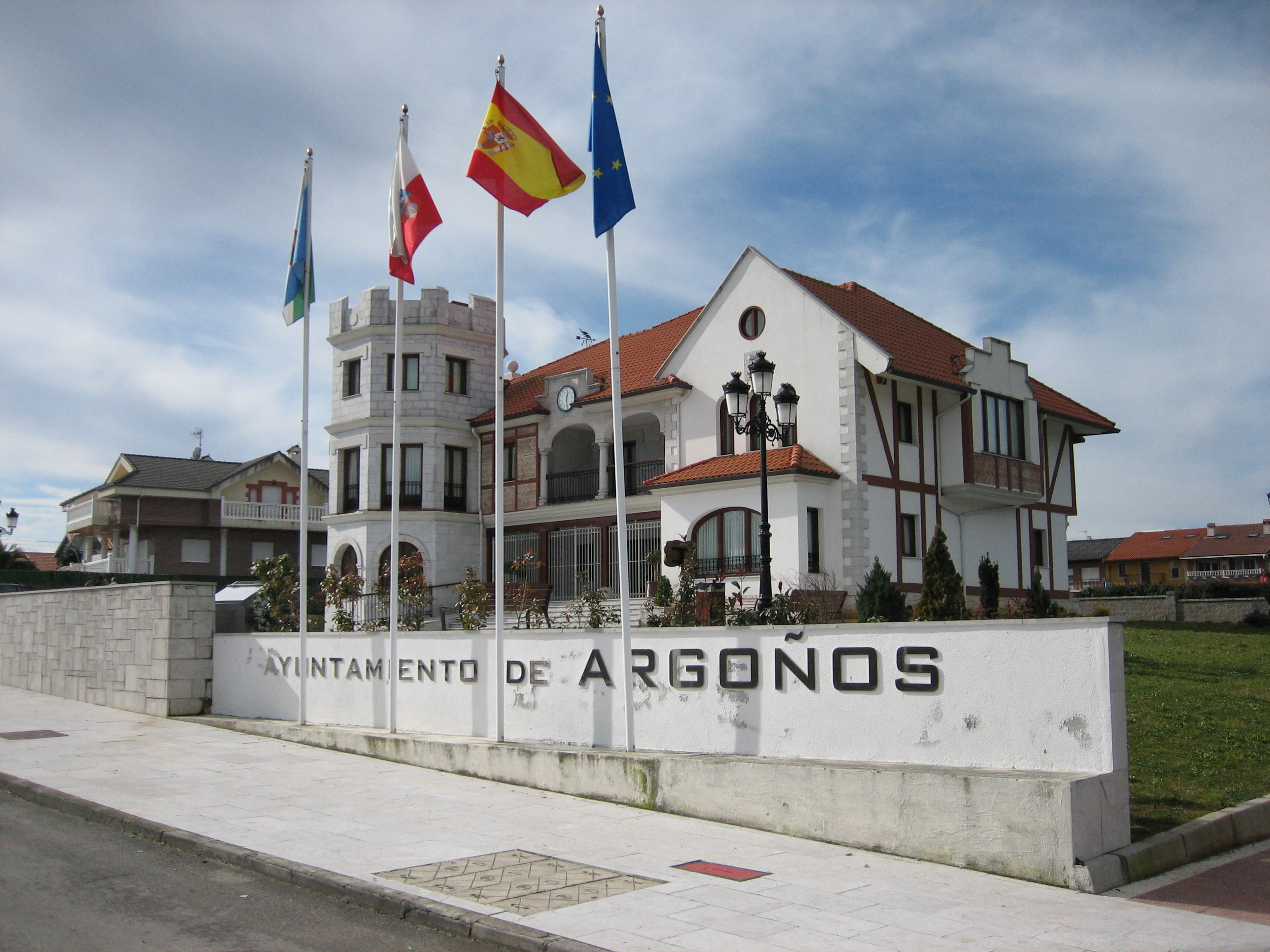 Town hall of Argoños, Cantabria (Spain).